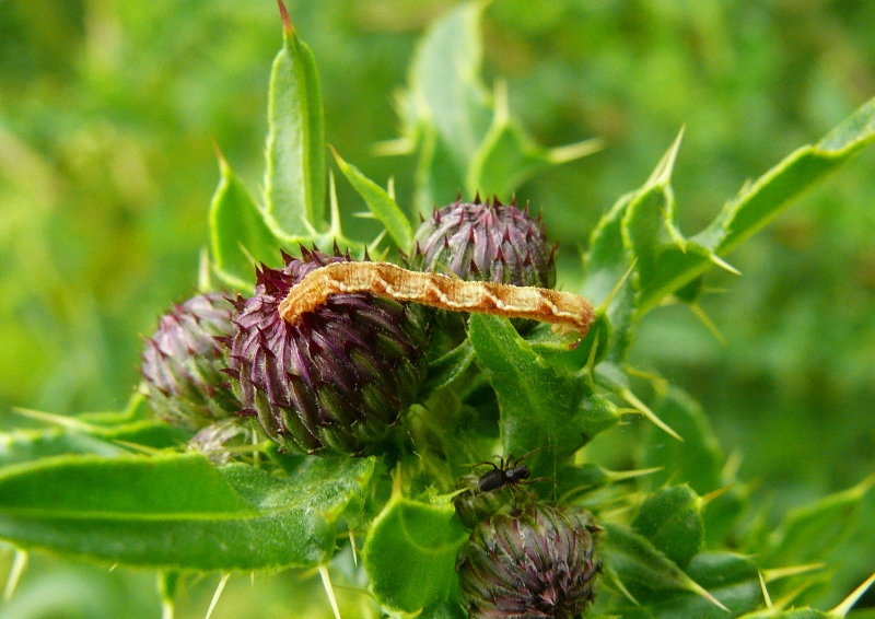 Eupithecia virgaureata, larva. Location: The Netherlands - Ooltgensplaat - Het Groote Gat e.o.